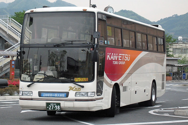 Kan-etsu Kotsu's express bus "Apple-Go" (Hino S'elega U-RU3FTAB / Hino body) at Numata Station, Numata, Gunma, Japan